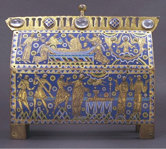 The Becket Casket, about 1180-1190, Limoges, France, V&A Museum no. M.66-1997 Techniques - Gilt copper and champlevé enamel on a wooden core